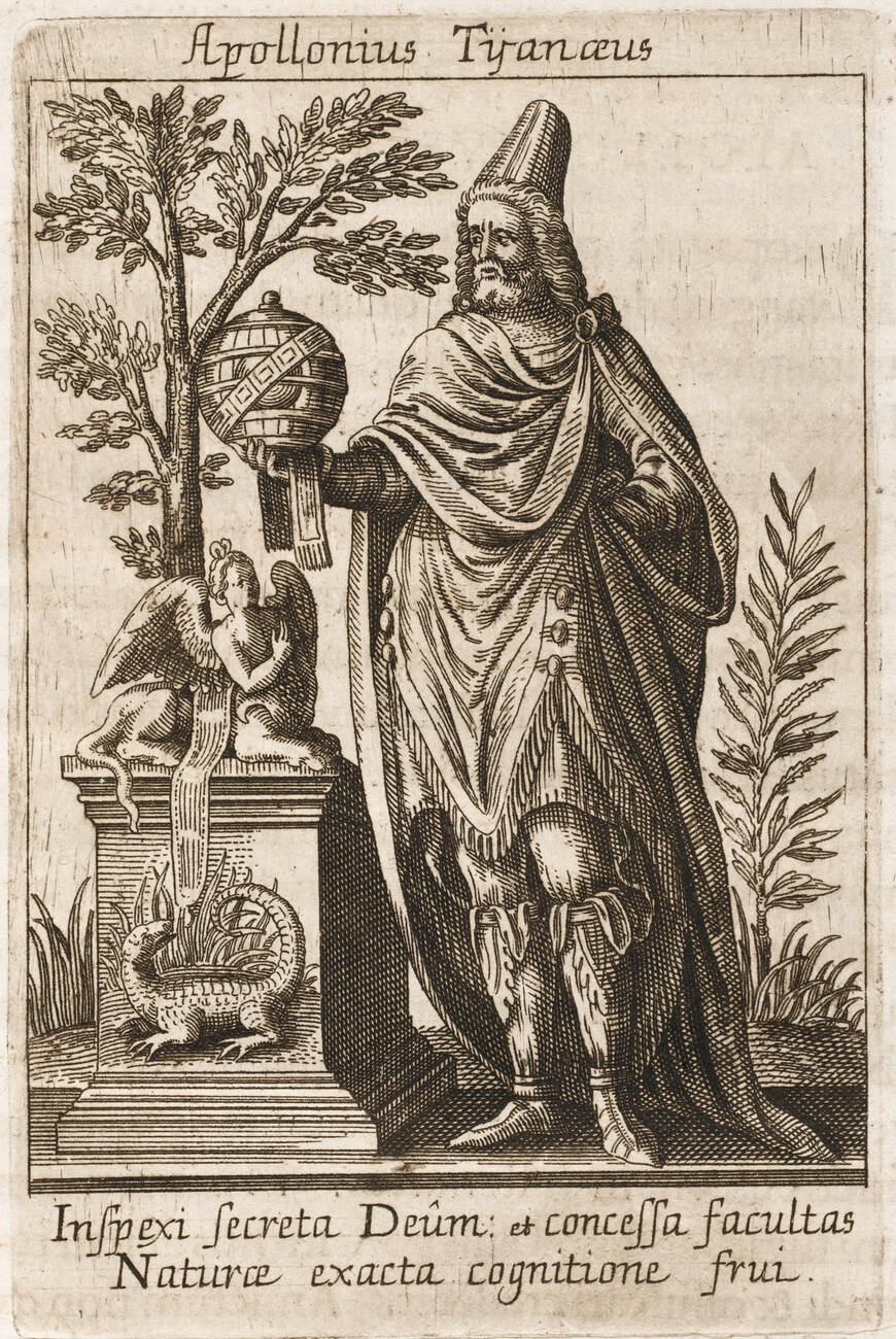 Apollonius Tyanaeus - Apollonius of Tyana in a hat holding an orb. Witj dragon, sphinx and tree. Text:Inspexi secreta Deûm: et concessa facultas Naturae exacta cognitione frui